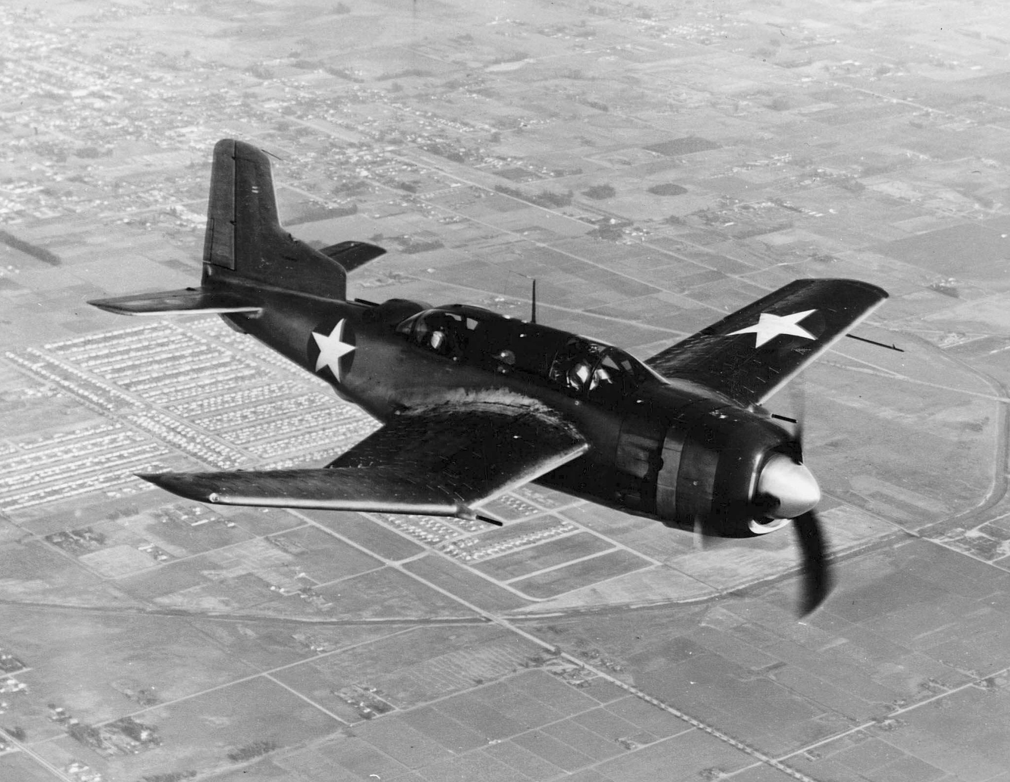 A U.S. Navy Douglas XSB2D-1 Destroyer (BuNo.3551) in flight in 1943. Only two XSB2Ds were built plus 28 single seat versions, redesignated BTD-1.